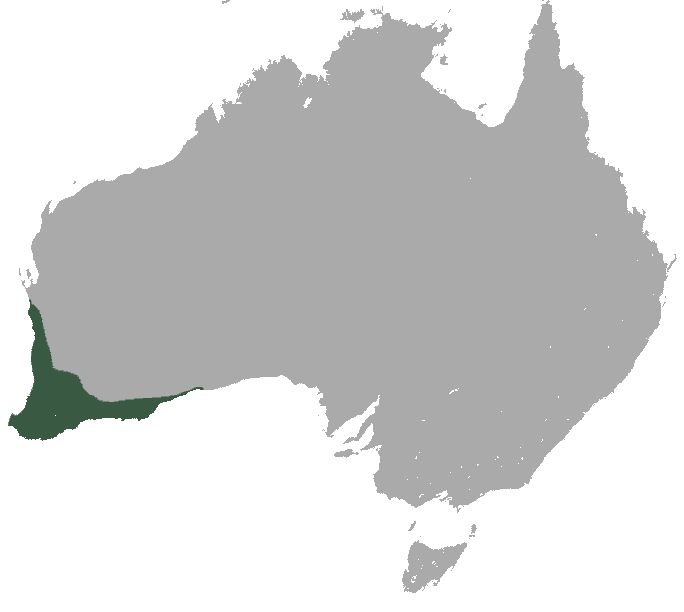 Honey Possum (Tarsipes rostratus) range